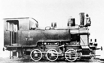 Russian tank locomotive Yer' series. Type 62.